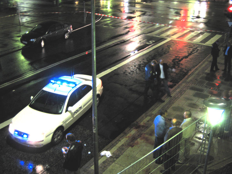 Danish police at work in Aalborg.